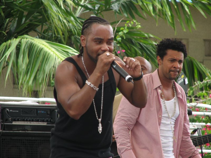 Shaggy (right) with Rayvon (left)